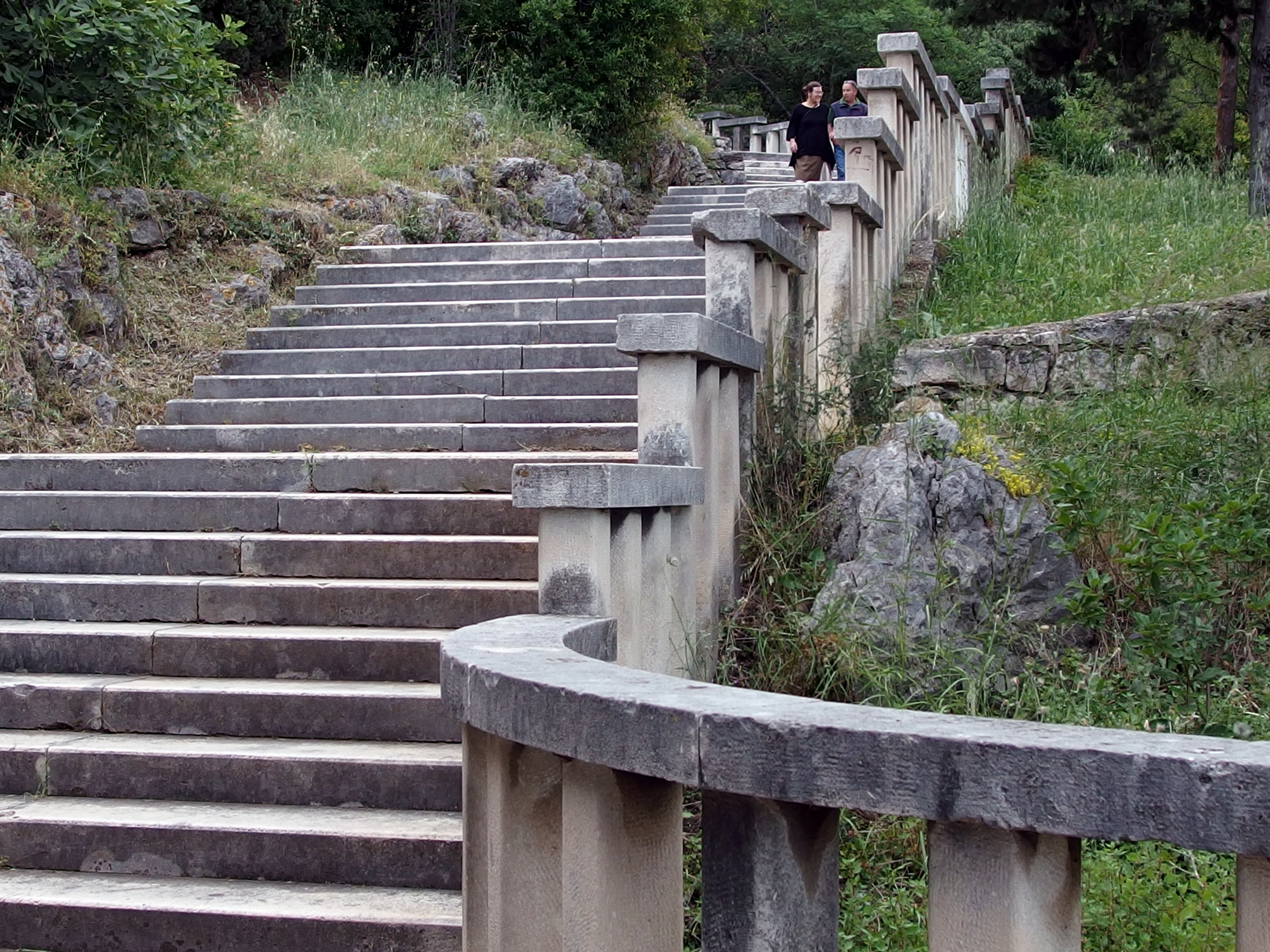 2013-06-05 in Split.